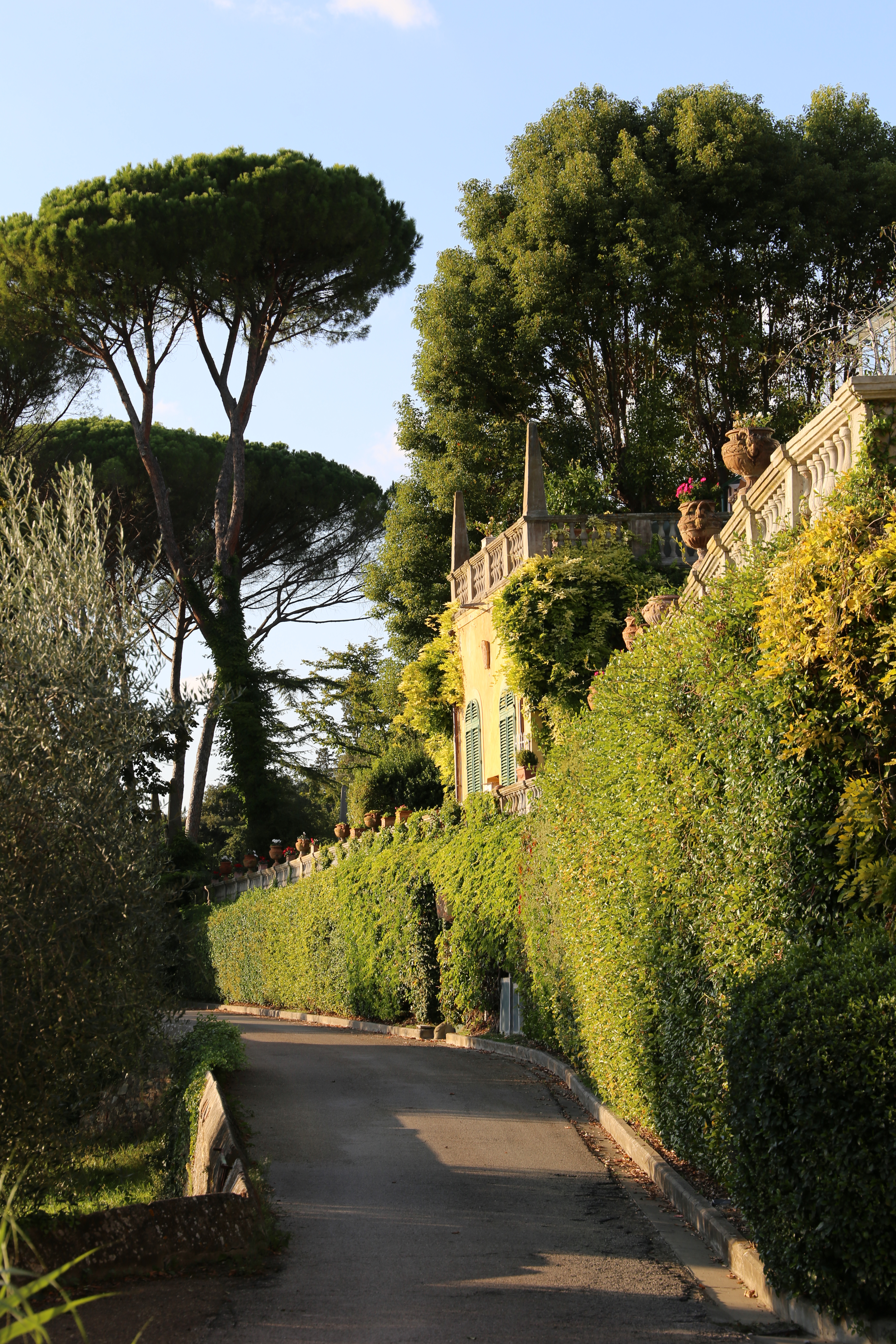 Settignano